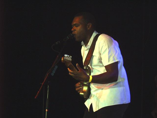 Robert Cray, Rhythm & Blues Festival, Groningen, The Netherlands, May 6, 2006.